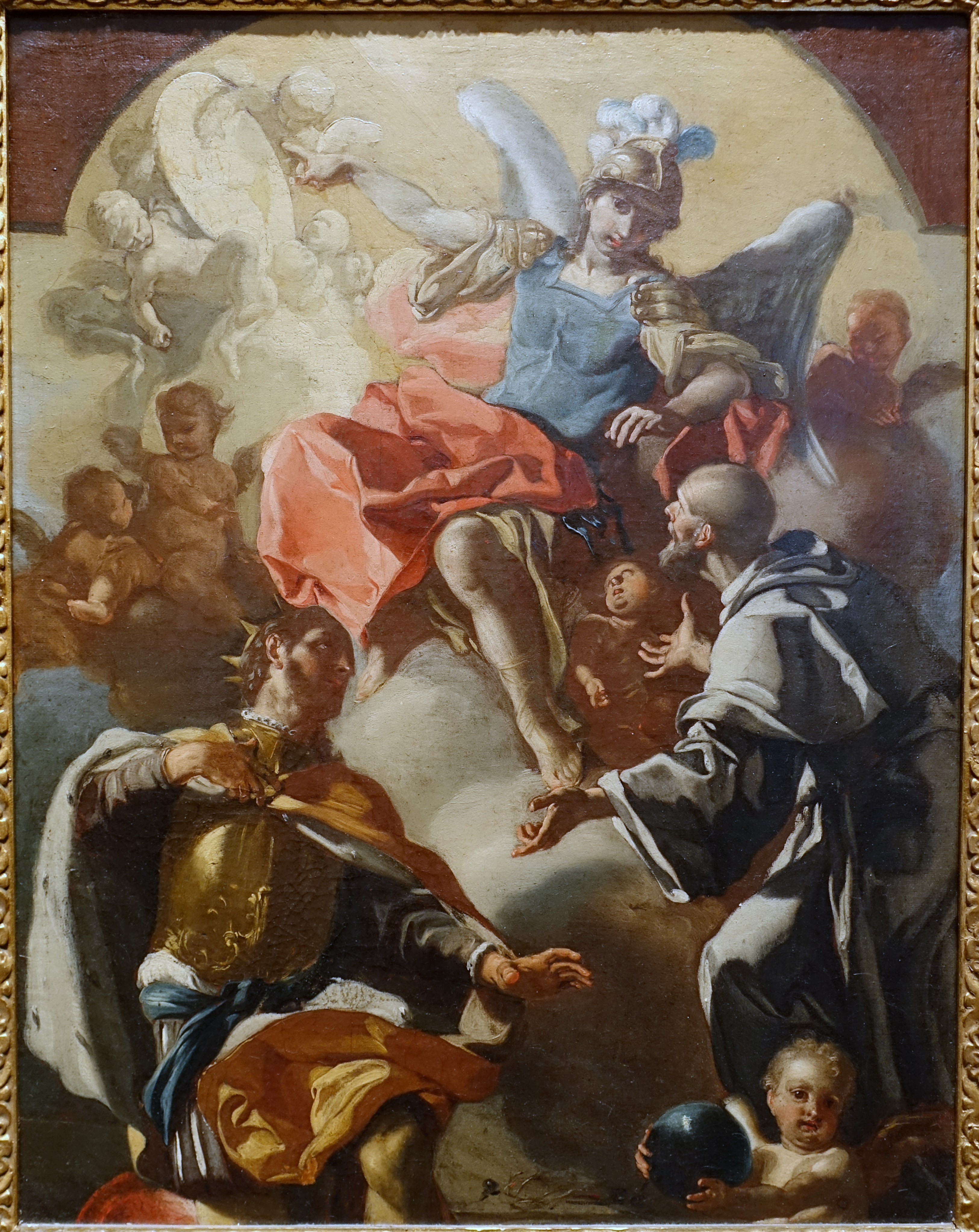 Exhibit in the Blanton Museum of Art - Austin, Texas, USA. This work is old enough so that it is in the public domain.